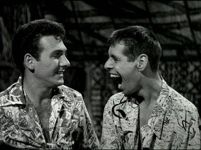 Duke Mitchell (left) and Sammy Petrillo (right) in the movie Bela Lugosi Meets a Brooklyn Gorilla. This movie is in PUBLIC DOMAIN in the United States of America.